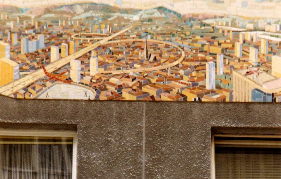 Future of Vienna, as envisaged in the 1960s. Mosaic by Franz Molt (1910 - 1990) public art,Vienna, Rainergasse 27